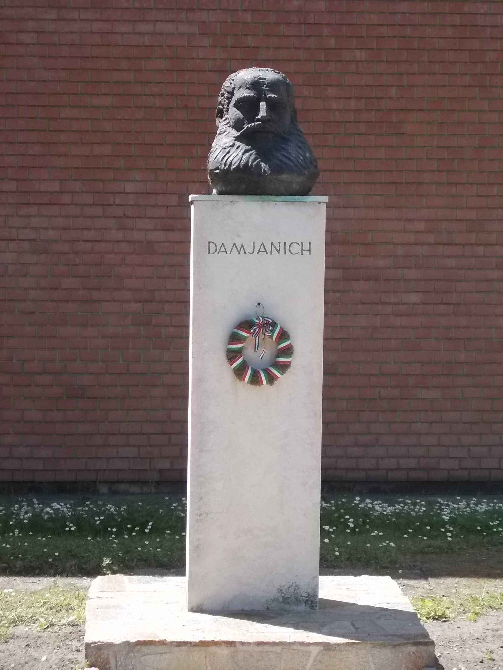 Bust of János Damjanich by Sándor Györfi (1978) at Damjanich János Secondary School, Vocational School and Student Dorm. - Vécsey Street, Hatvan, Heves County, Hungary.